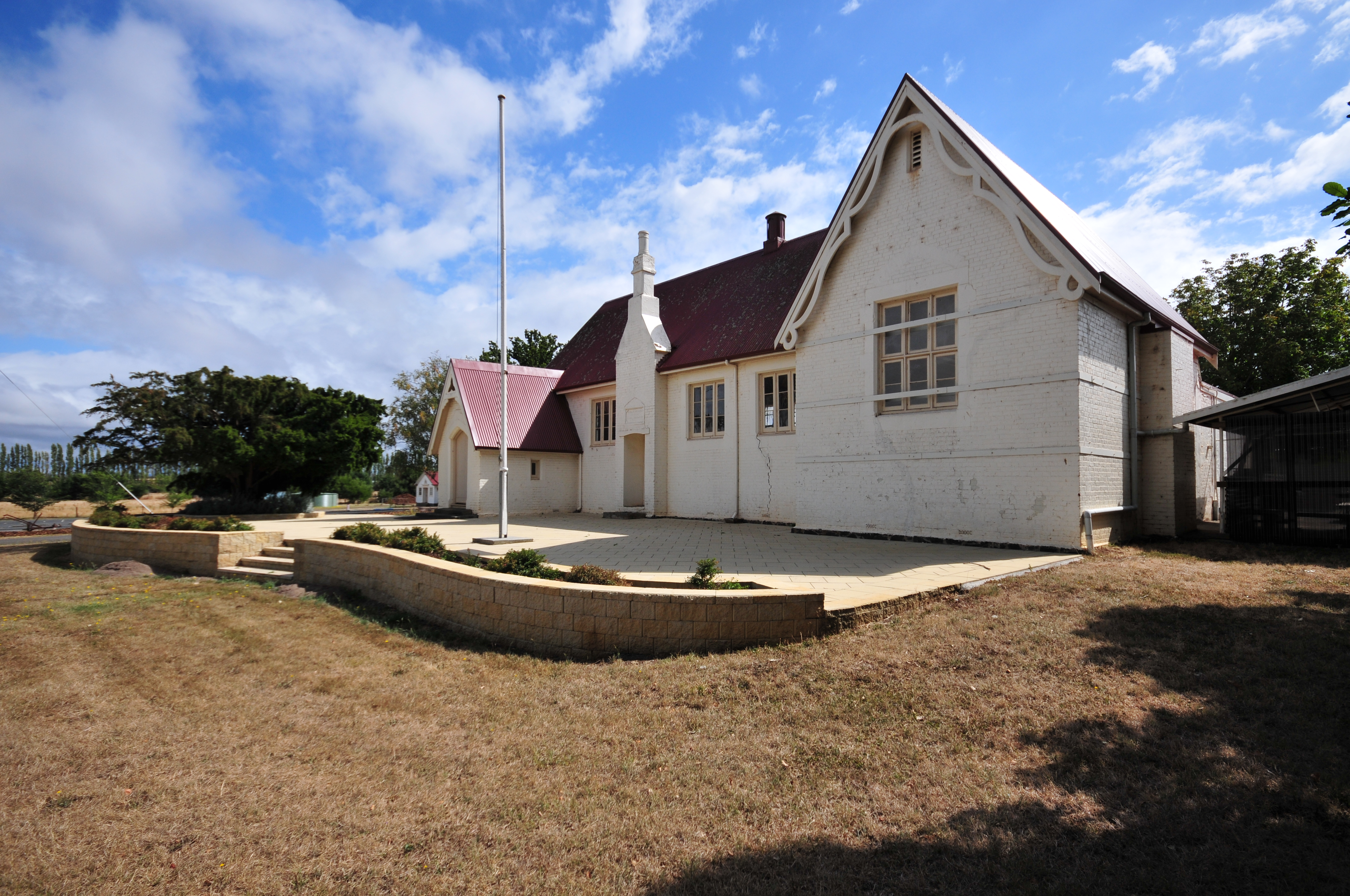 The original 1865 school building at Hagley Primary School, Hagley, Tasmania, Australia